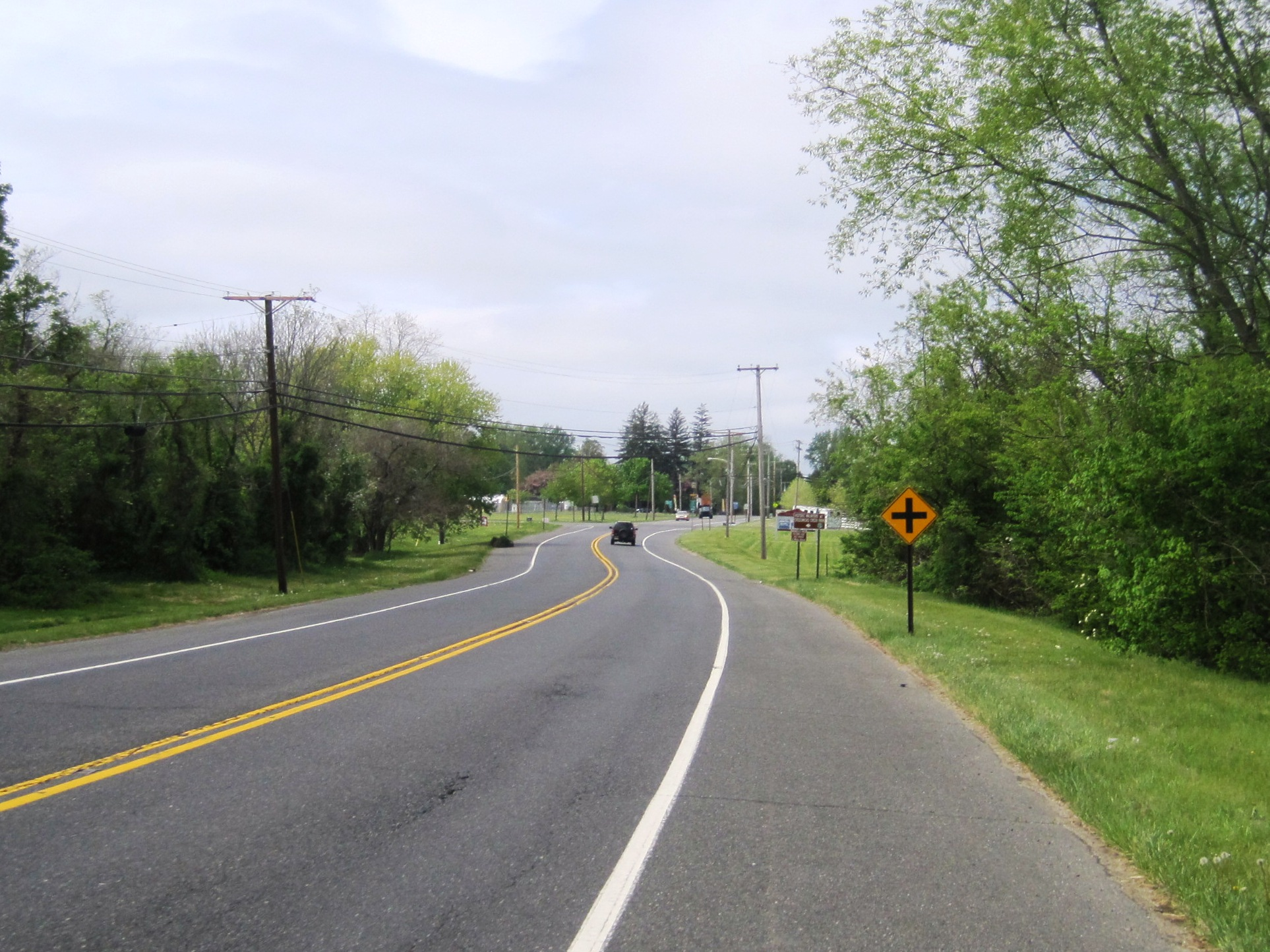 Photo showing the center of Cream Ridge, New Jersey, an unincorporated community within Upper Freehold Township. Photo was taken along northbound County Route 539 (and formerly the temporary end of Route 37) approaching Burlington Path Road (CR 27).